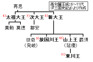 the geneology of Goguryeo( 6th King ~ 11th King) / 高句麗王系図(6代～11代)